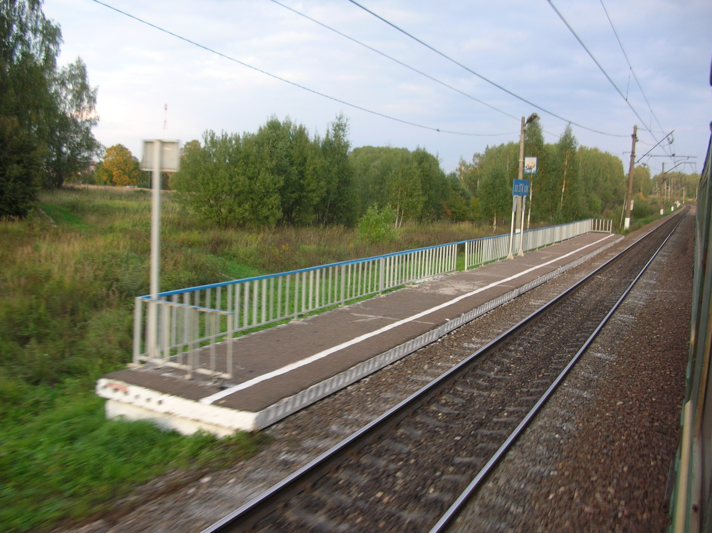 Railway station 274 km of Big Circle Moscow Railway, Klyonovskoe settlement, Moscow, Russia.